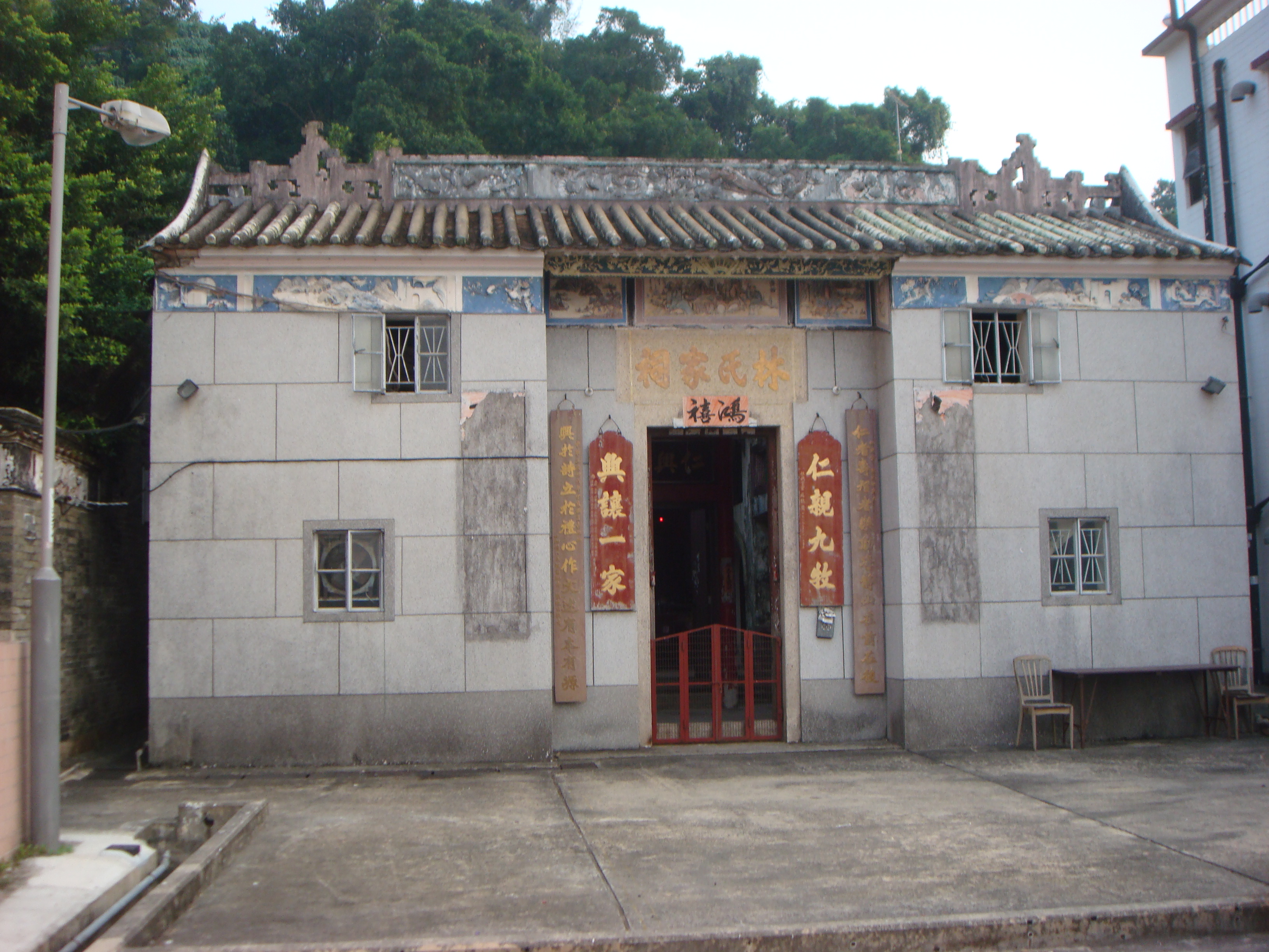 Lam Ancestral Hall, Shan Pui Tsuen, Yuen Long District, Hong Kong.